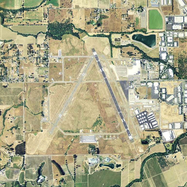 USGS digital orthophoto of Sonoma County Airport in California